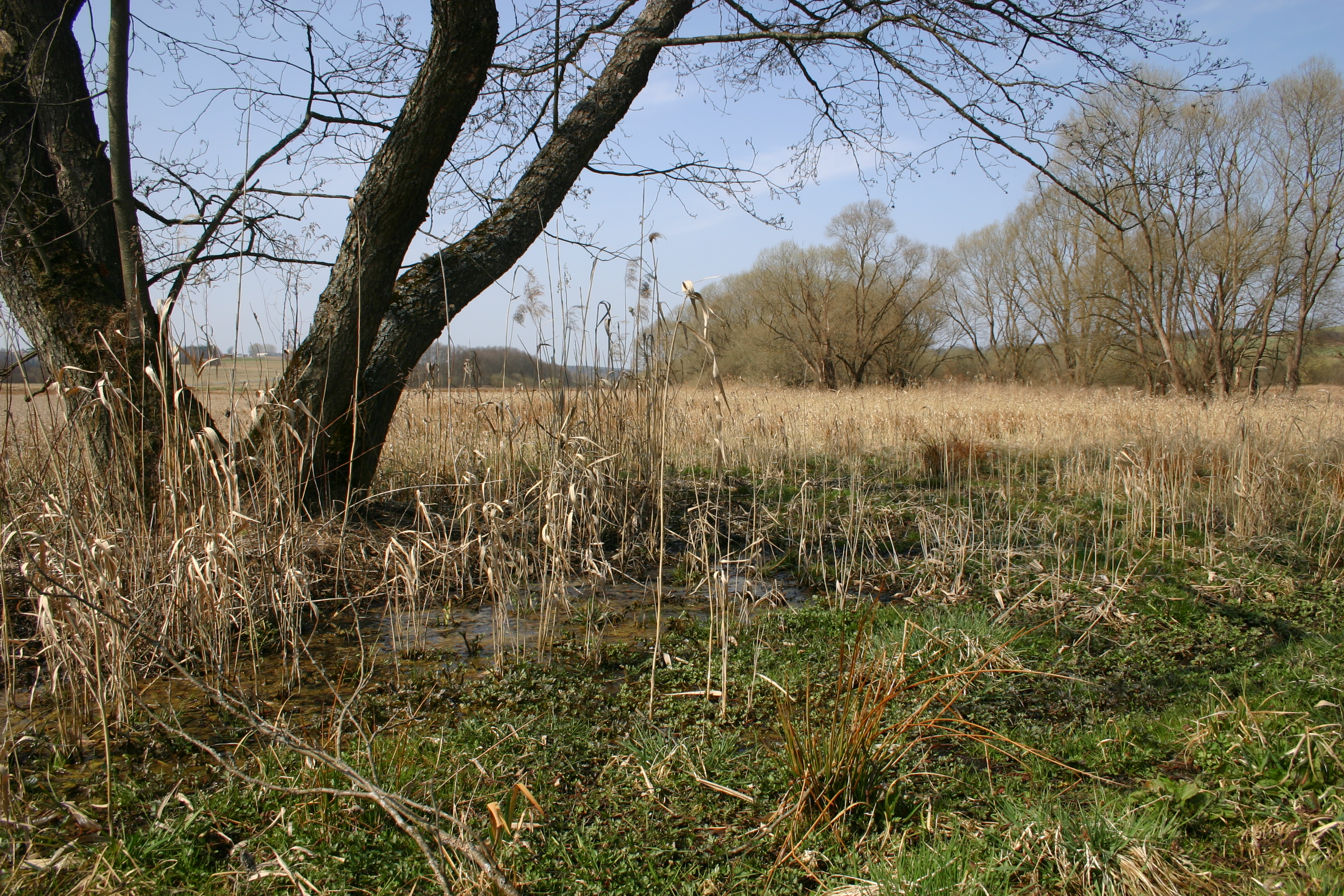 landscape Zickenbachtal